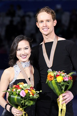 Madison Chock and Evan Bates at the 2015 World Championships